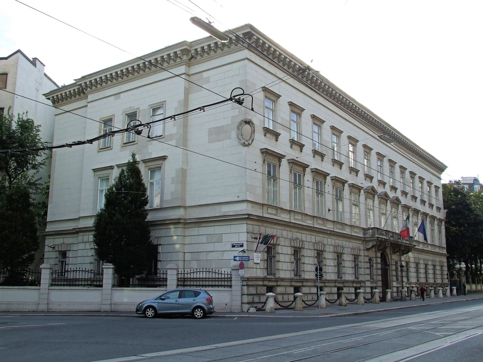 Palais Metternich located at Rennweg 27. Seat of the Italian embassy in Austria.